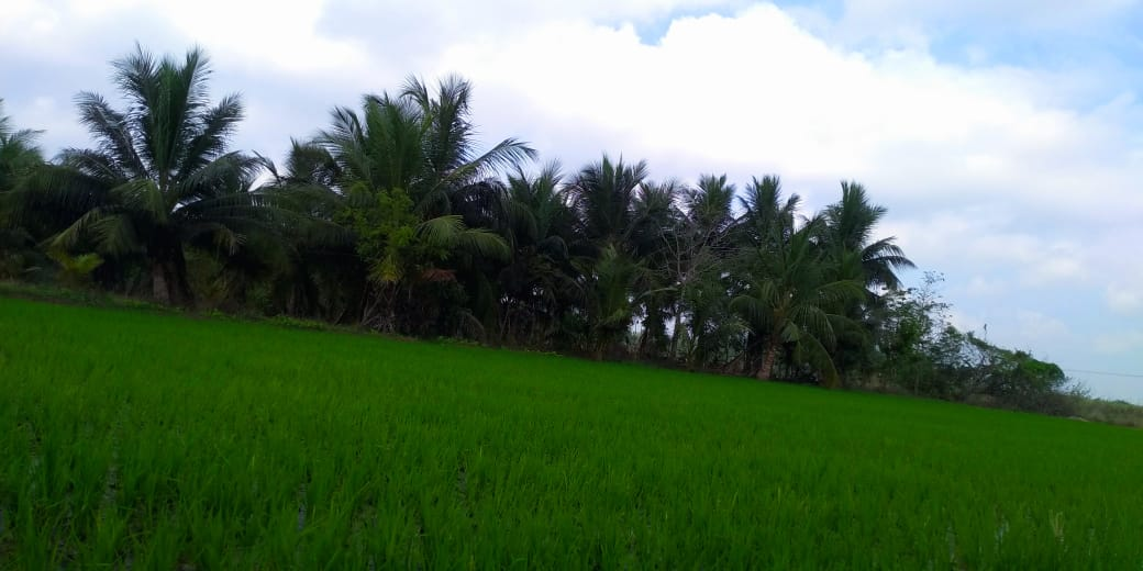 Paddy field with coconut trees in maramadakki